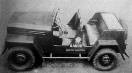 Argentine jeep Ñandú